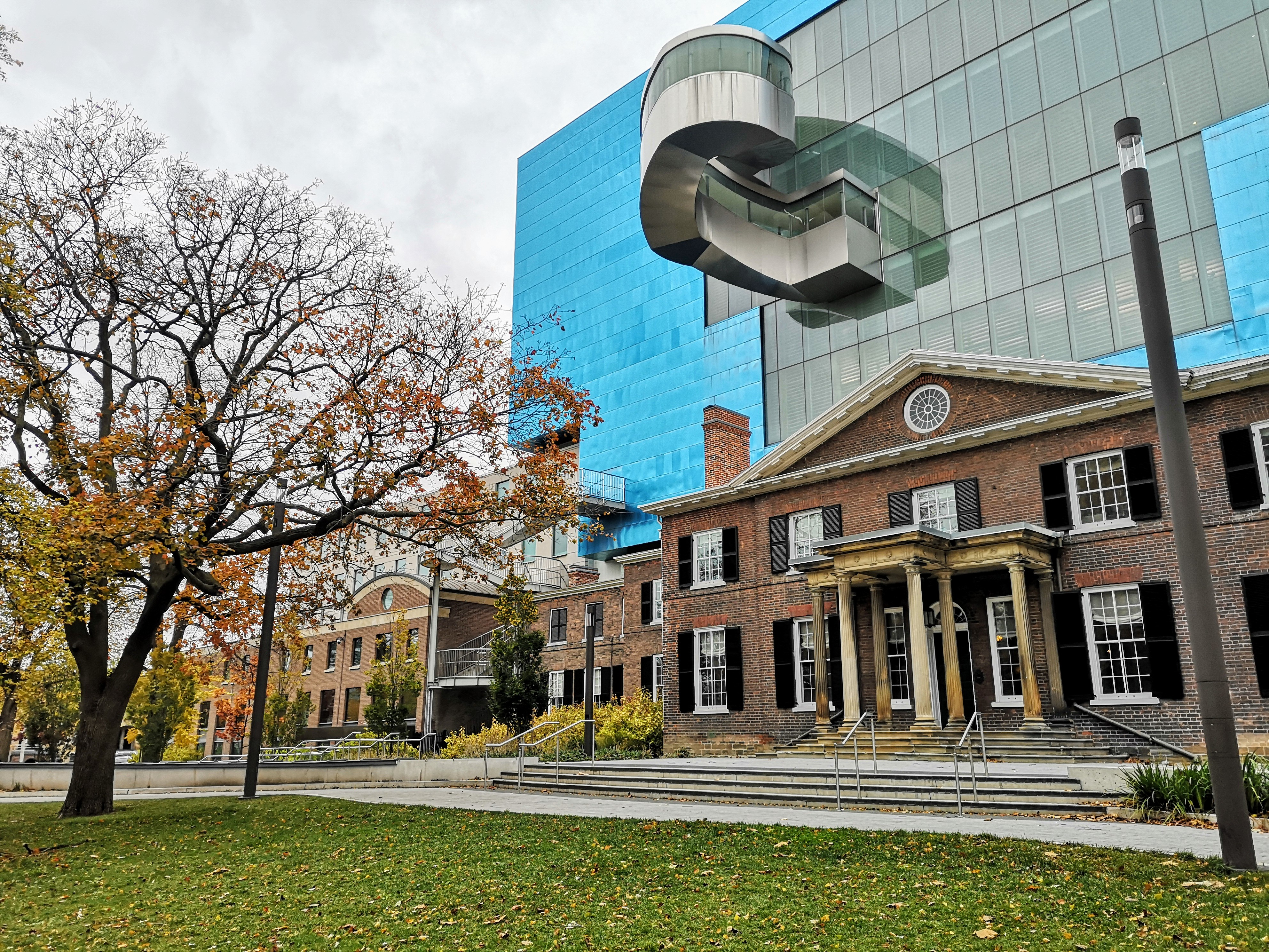 Southern exterior of the Art Gallery of Ontario